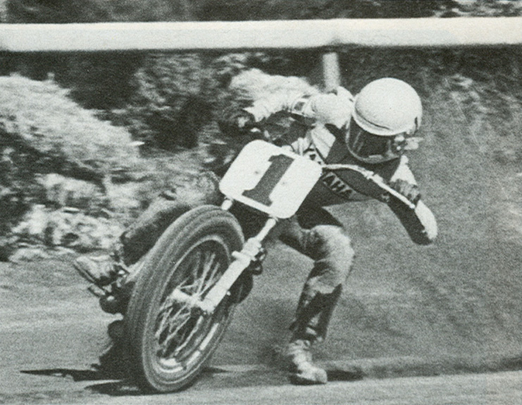 Kenny Roberts shorttracking at Albana, Calif 1974